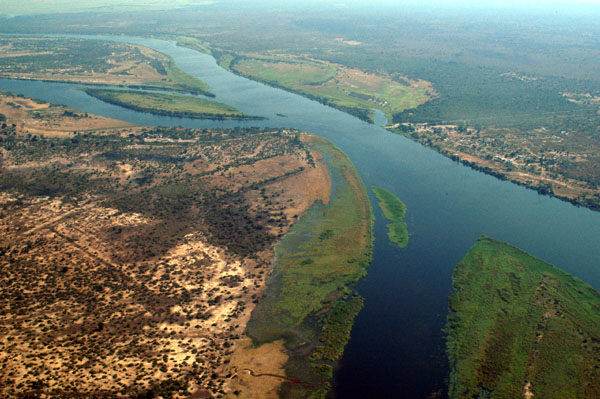 Close-up aerial photo of Zambezi River at the junction of Namibia, Zambia, Zimbabwe and Botswana, before the construction of the bridge connecting Zambia with Botswana